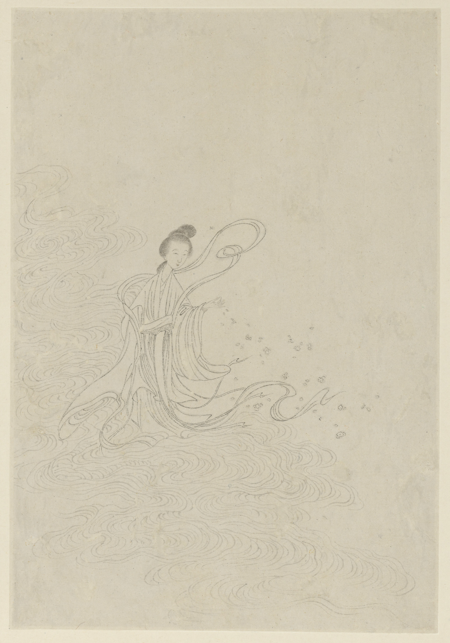 This depicts a heavenly maiden scattering flowers.